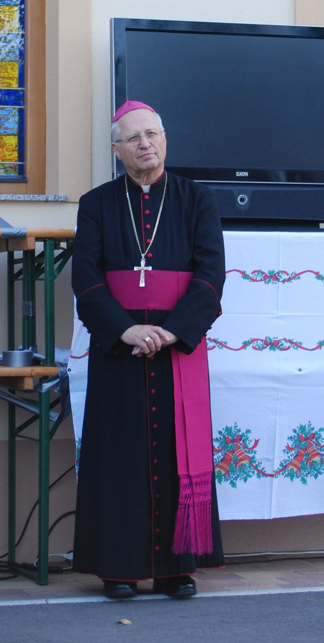 Andrej Glavan, the Bishop of Novo Mesto, in front of the church at Kovač Hil (Municipality of Sevnica, Slovenia) The blessing of the church on 7 October 2012.